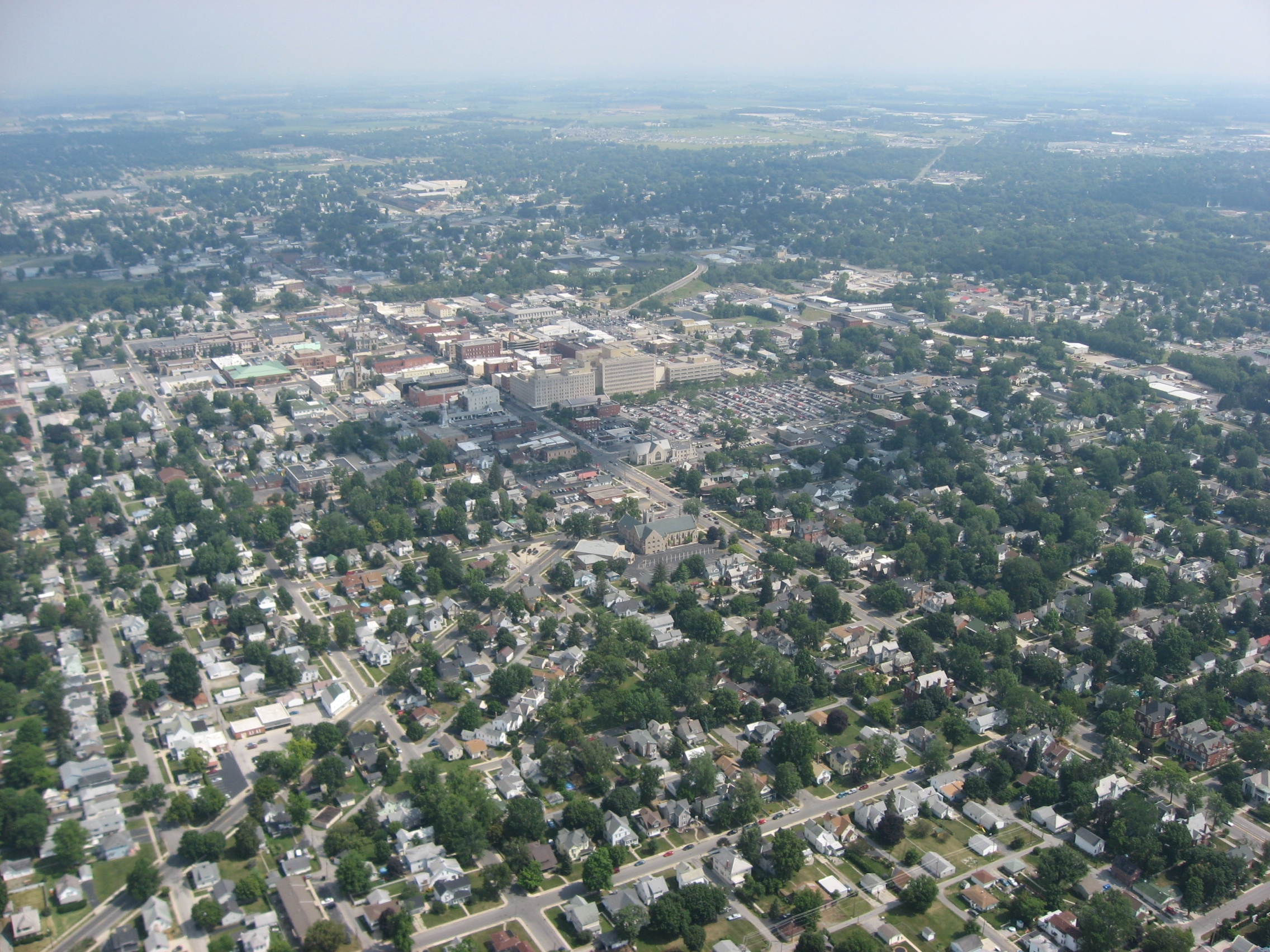 Aerial view of downtown Findlay, a city in Hancock County, Ohio, United States. Picture taken from a Diamond Eclipse light airplane at an altitude of 1,850 feet MSL and a bearing of approximately 30º.